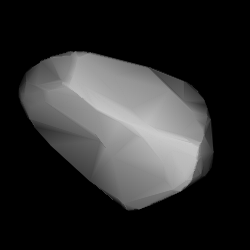 3D convex shape model of 1032 Pafuri, computed using light curve inversion techniques. J. Hanuš, J. Ďurech, M. Brož, B. D. Warner (June 2011). "A study of asteroid pole-latitude distribution based on an extended set of shape models derived by the lightcurve inversion method". Astronomy and Astrophysics 530: A134. ISSN 0004-6361. arXiv